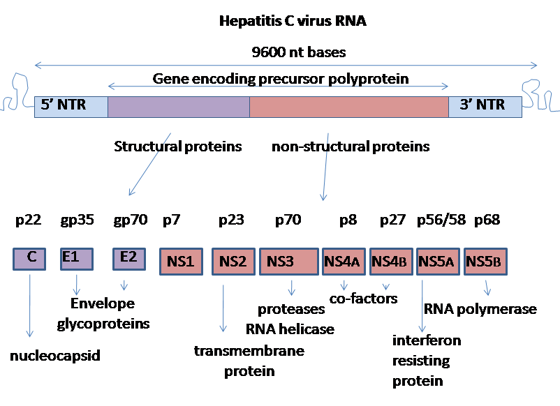 The genome organisation of Hepatitis c virus. One open reading frame encodes a polyprotein of 3010 amino acids. This protein is cut by viral and cell enzymes to active proteins.